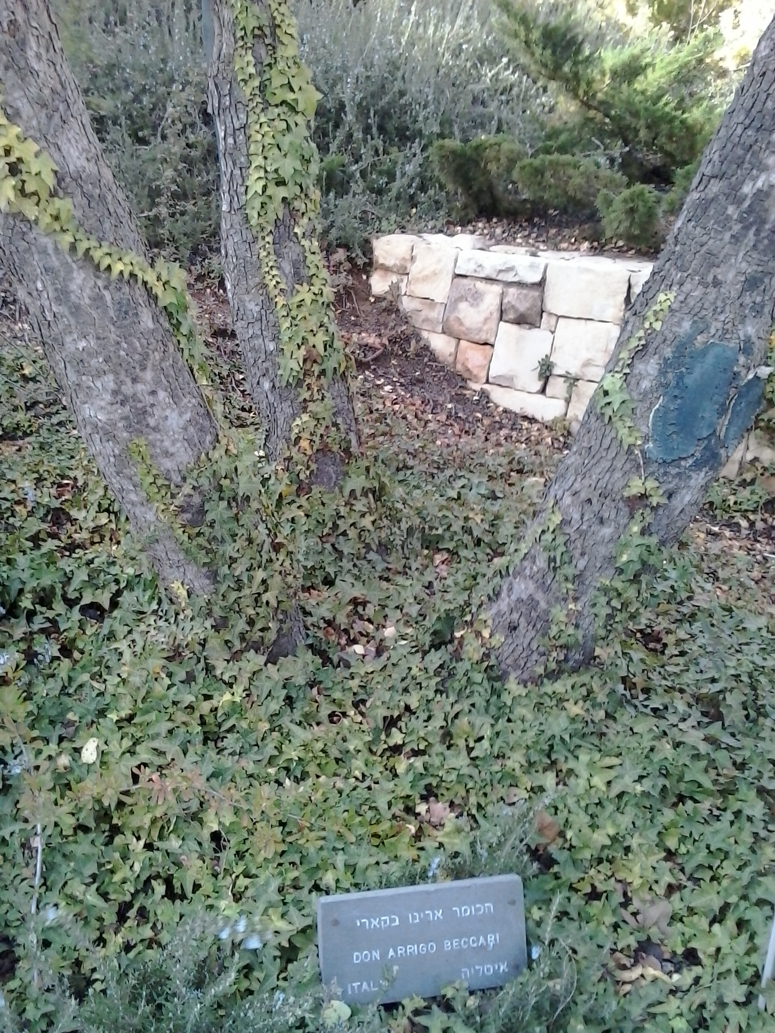 The tree planted at Yad Vashem honoring Righteous Among the Nations Arrigo Beccari